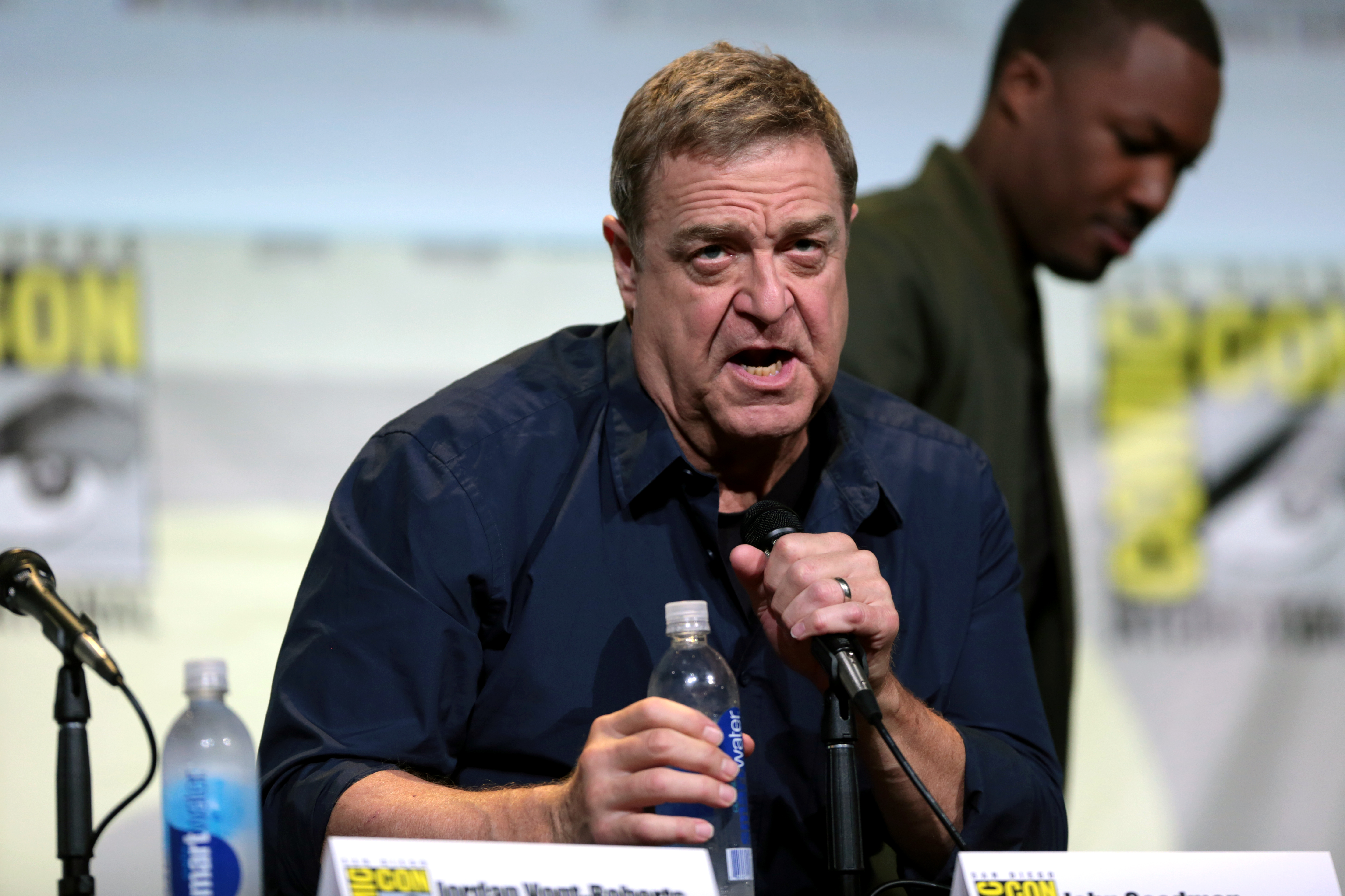 John Goodman speaking at the 2016 San Diego Comic Con International, for "Kong: Skull Island", at the San Diego Convention Center in San Diego, California.